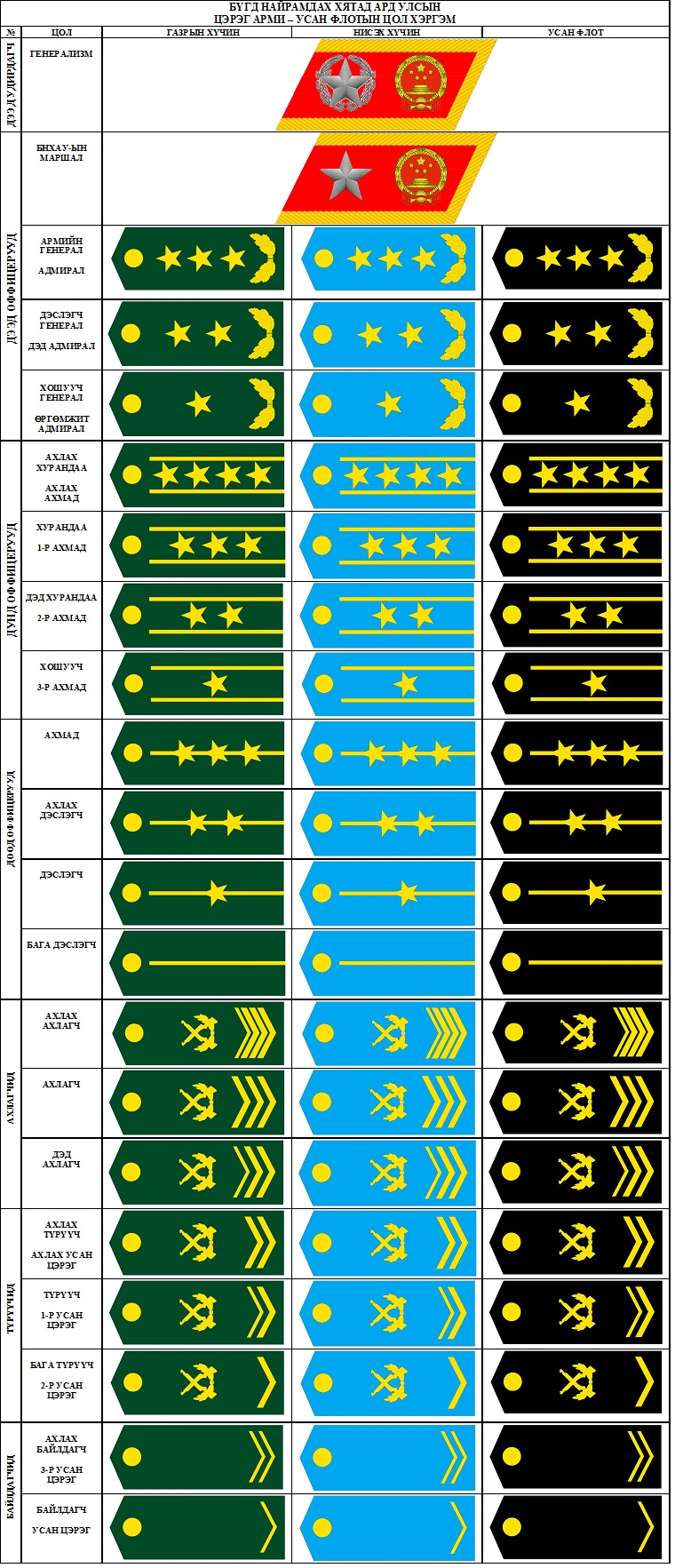 rank insignia of the People's Republic of China (People's Liberation Army)